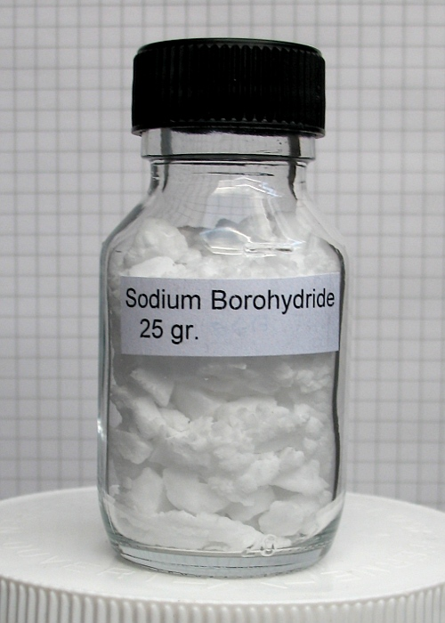 Sodium borohydride lumps, 25 grams